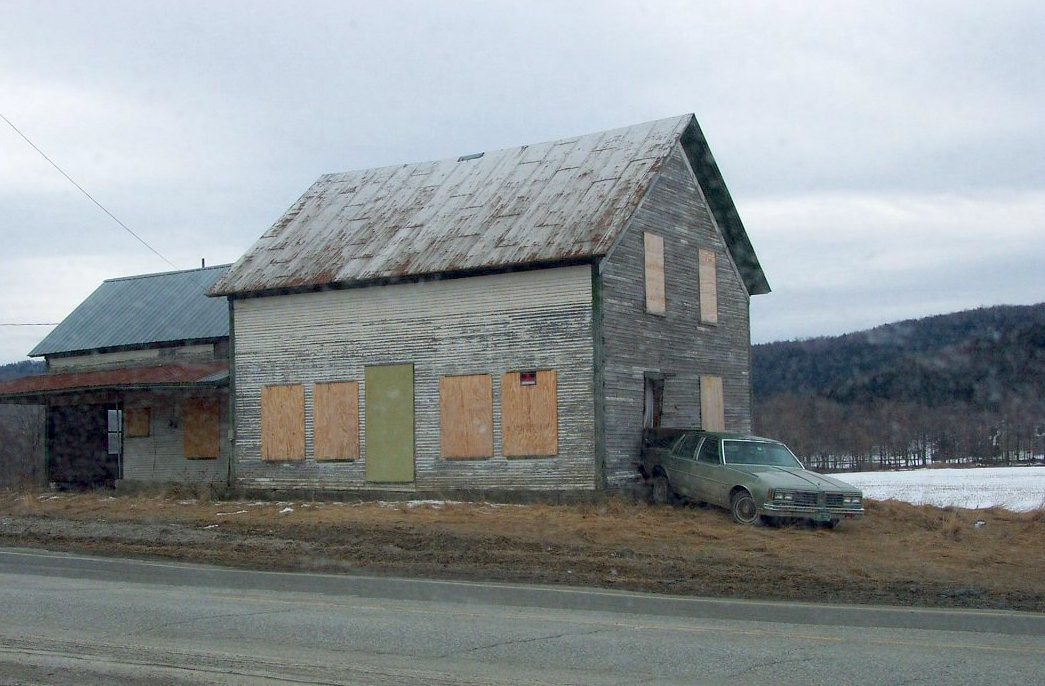 Brianna Maitland's vehicle as discovered on 20 March 2004; photo provided by The Charley Project.